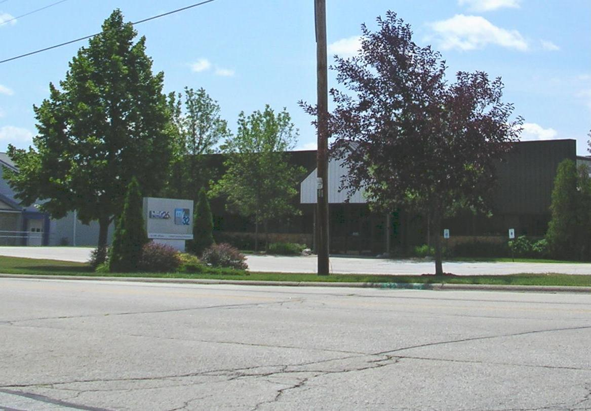 The studios of Green Bay television stations WGBA and WACY, located at 1391 North Rd on Green Bay's Southwest side. Photo was taken 7/15/2007 by this poster.